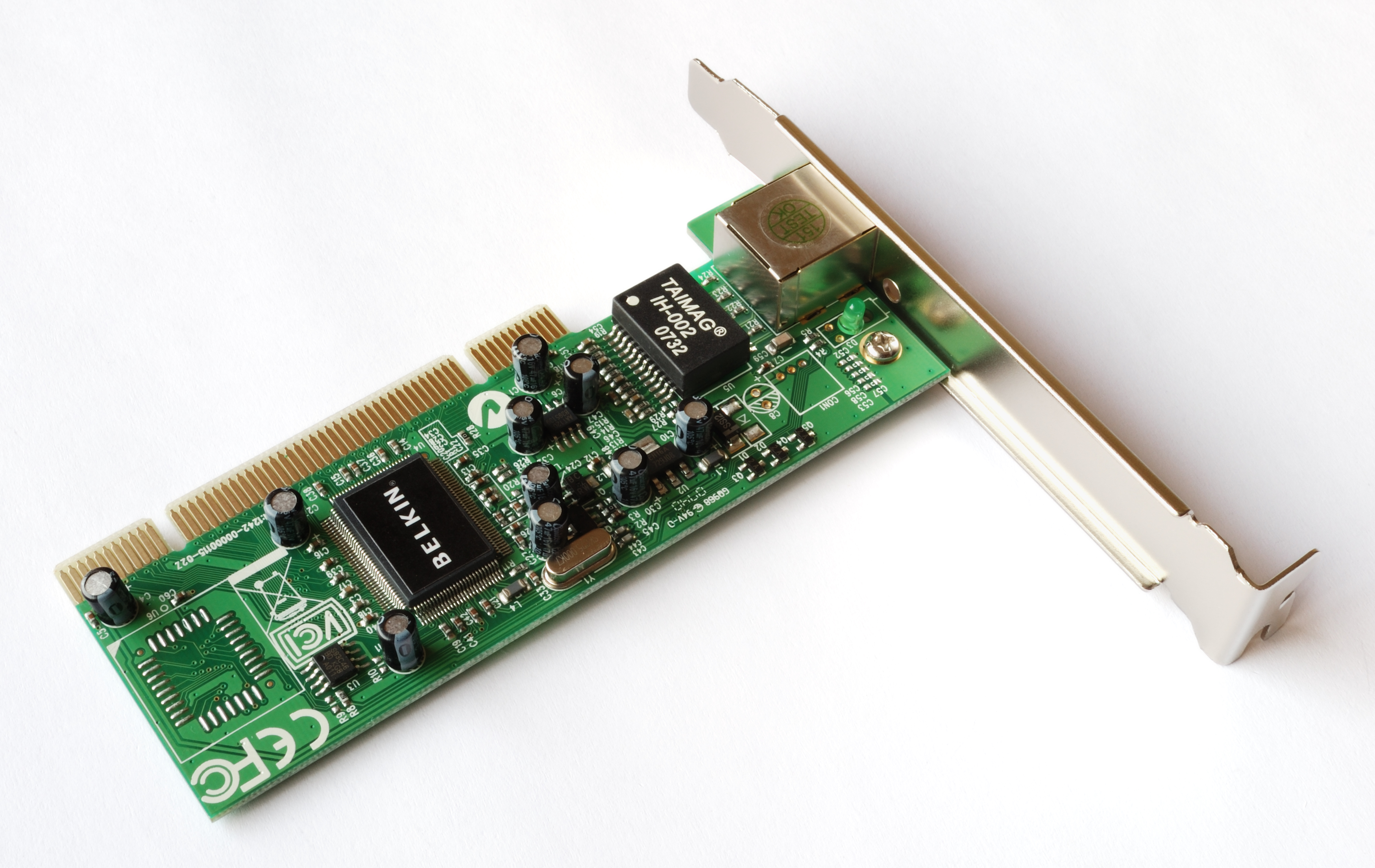 Gigabit Desktop Network PCI Card. Manufacturer Belkin. Enables the desktop computer to connect to a gigabit network.